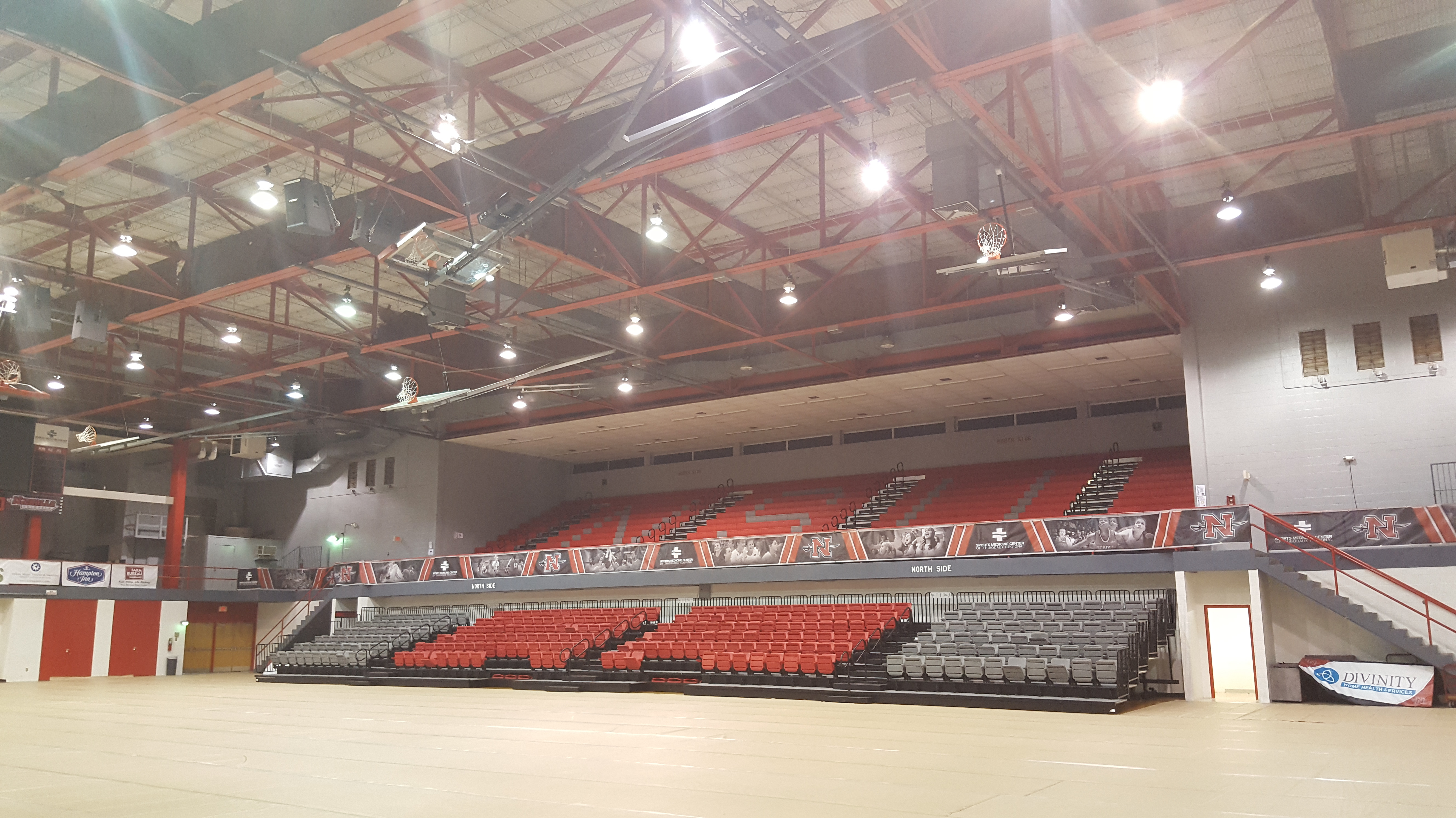 David R. Stopher Gymnasium (Thibodaux, Louisiana) north side